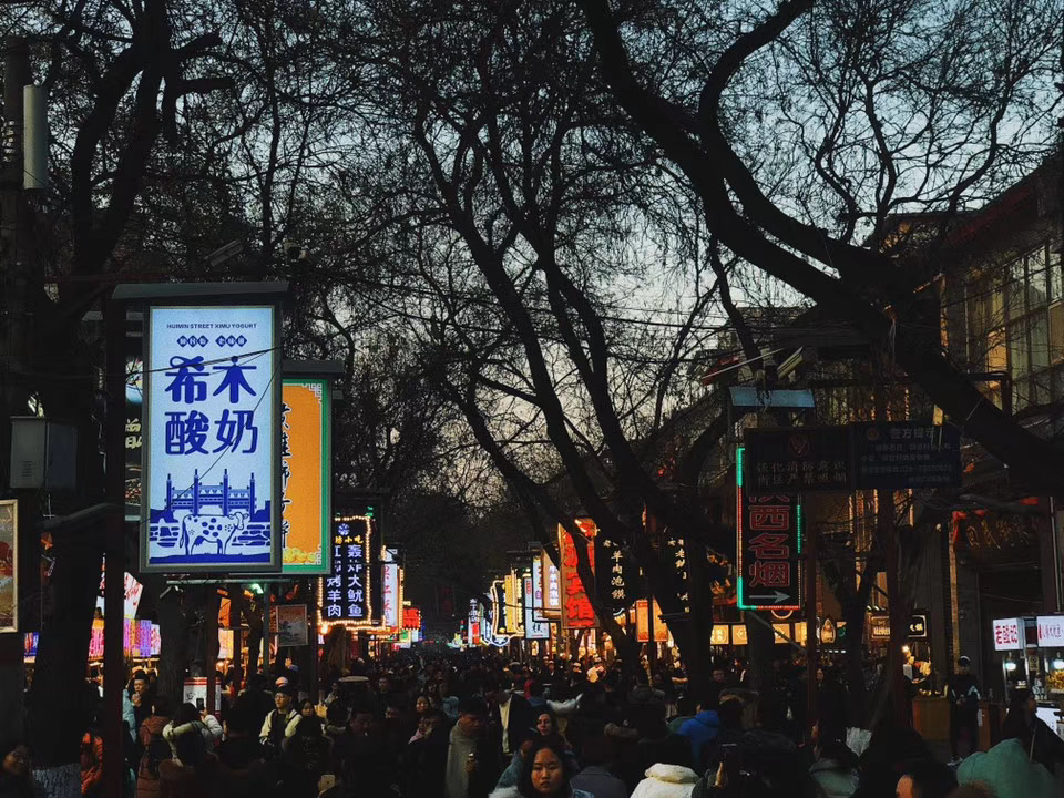 The South entrance of the Xi'an Muslim Street, with shops on the both side of the street.